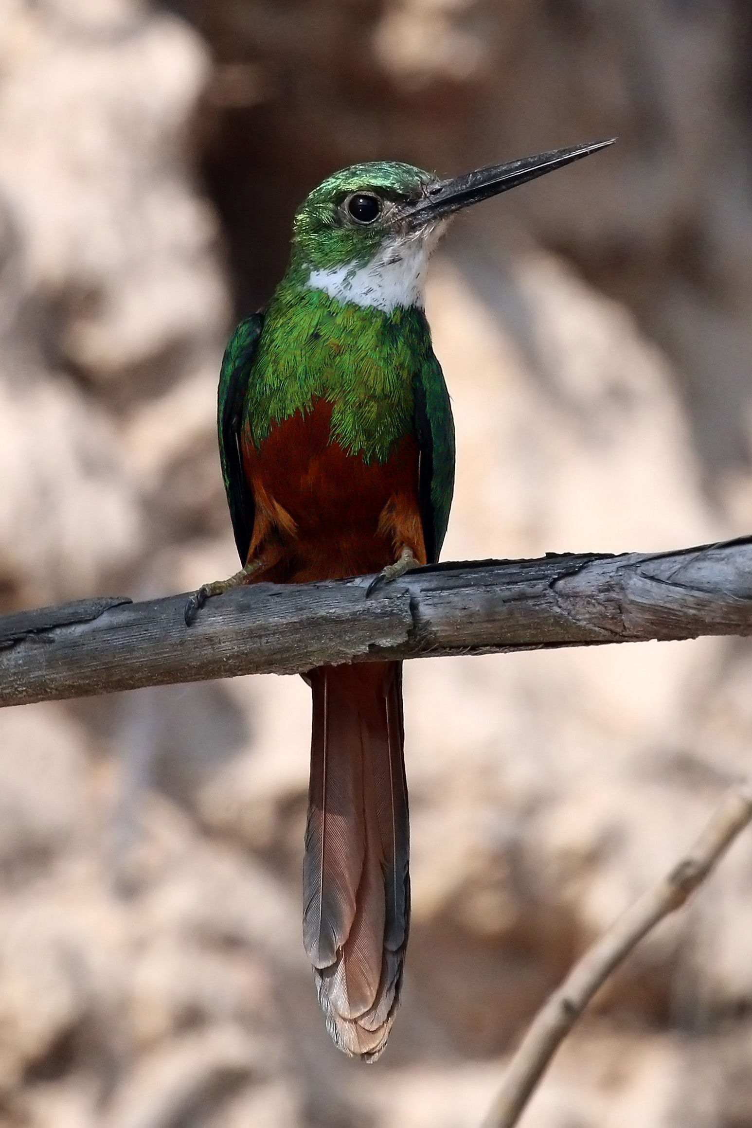 Rufous-tailed jacamar (Galbula ruficauda rufoviridis) male, the Pantanal, Brazil